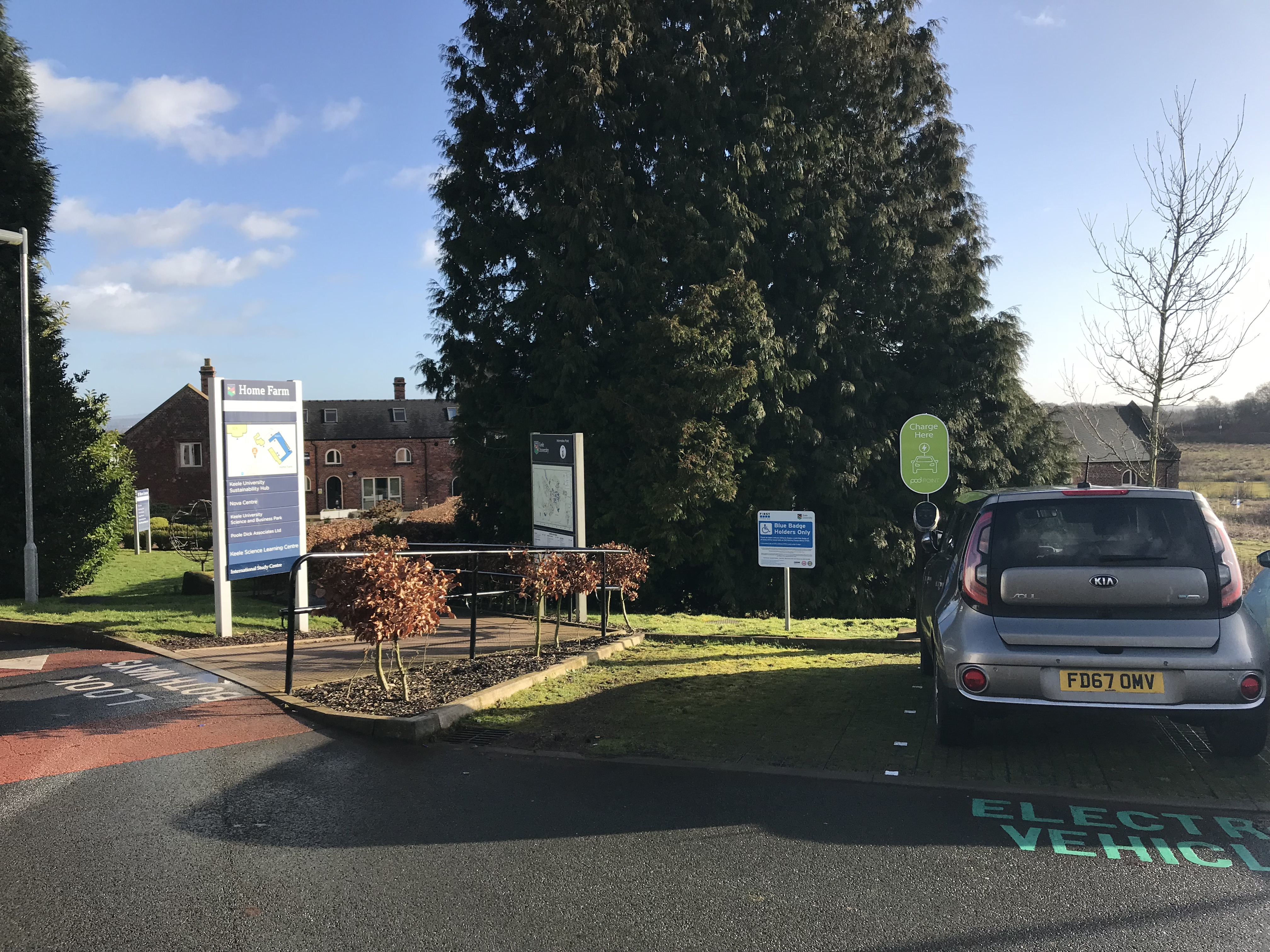 Electric car charging point, Keele University